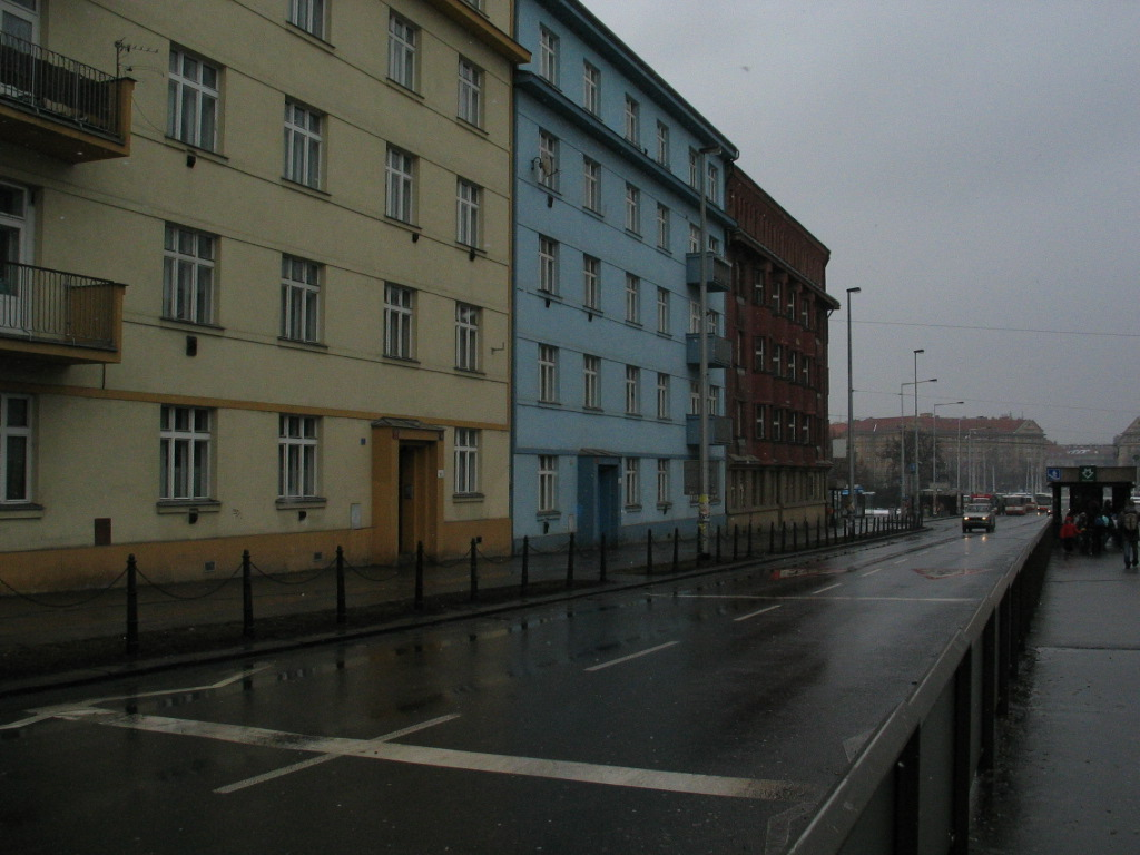 Dwelling houses on Evropská Street near the Vítězné náměstí.